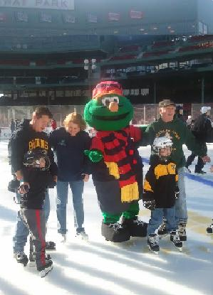 Wally skating with some fans during public skates at Frozen Fenway 2012